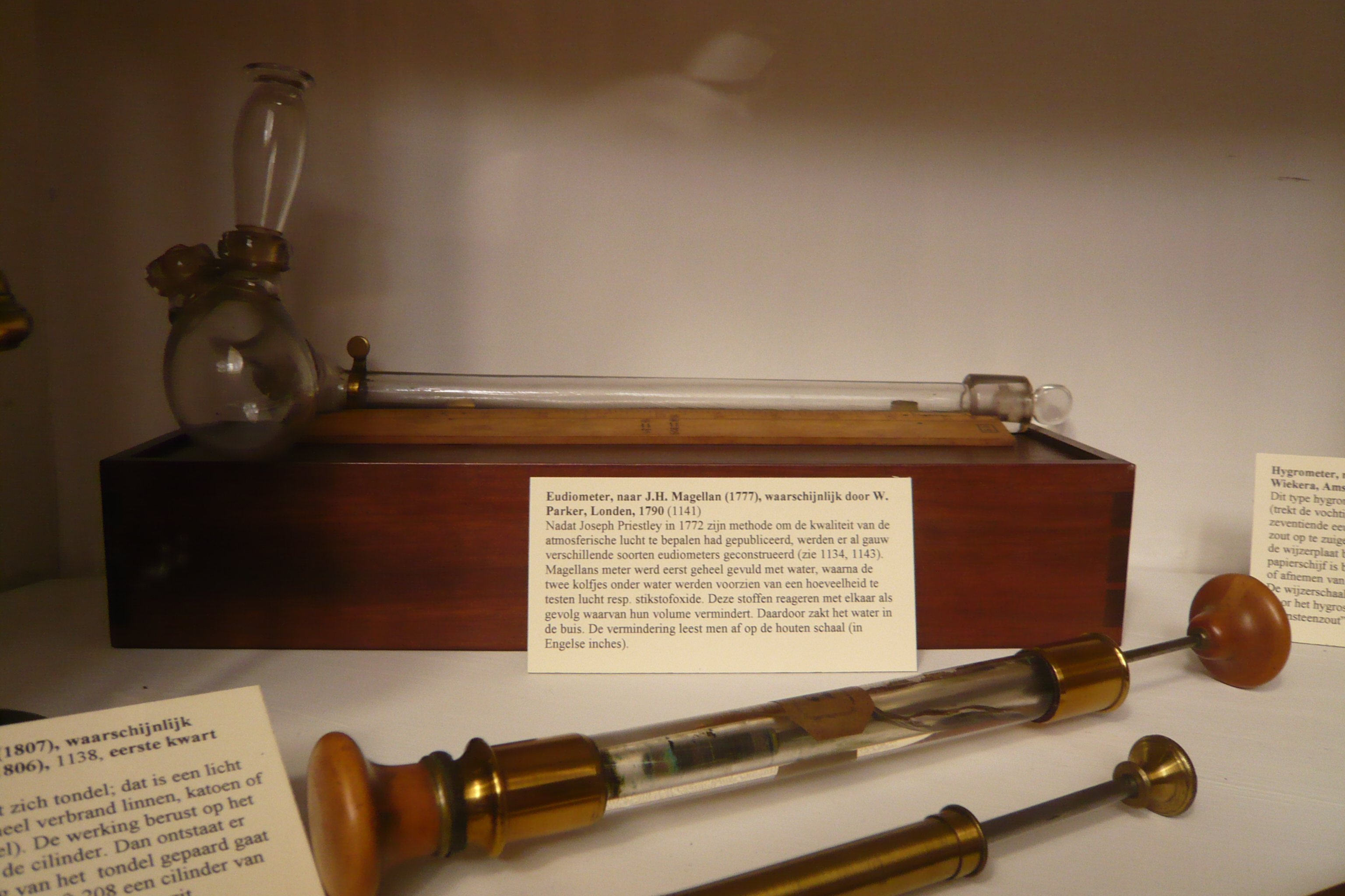 Eudiometer after J.H. Magellan, probably by W. Parker, London